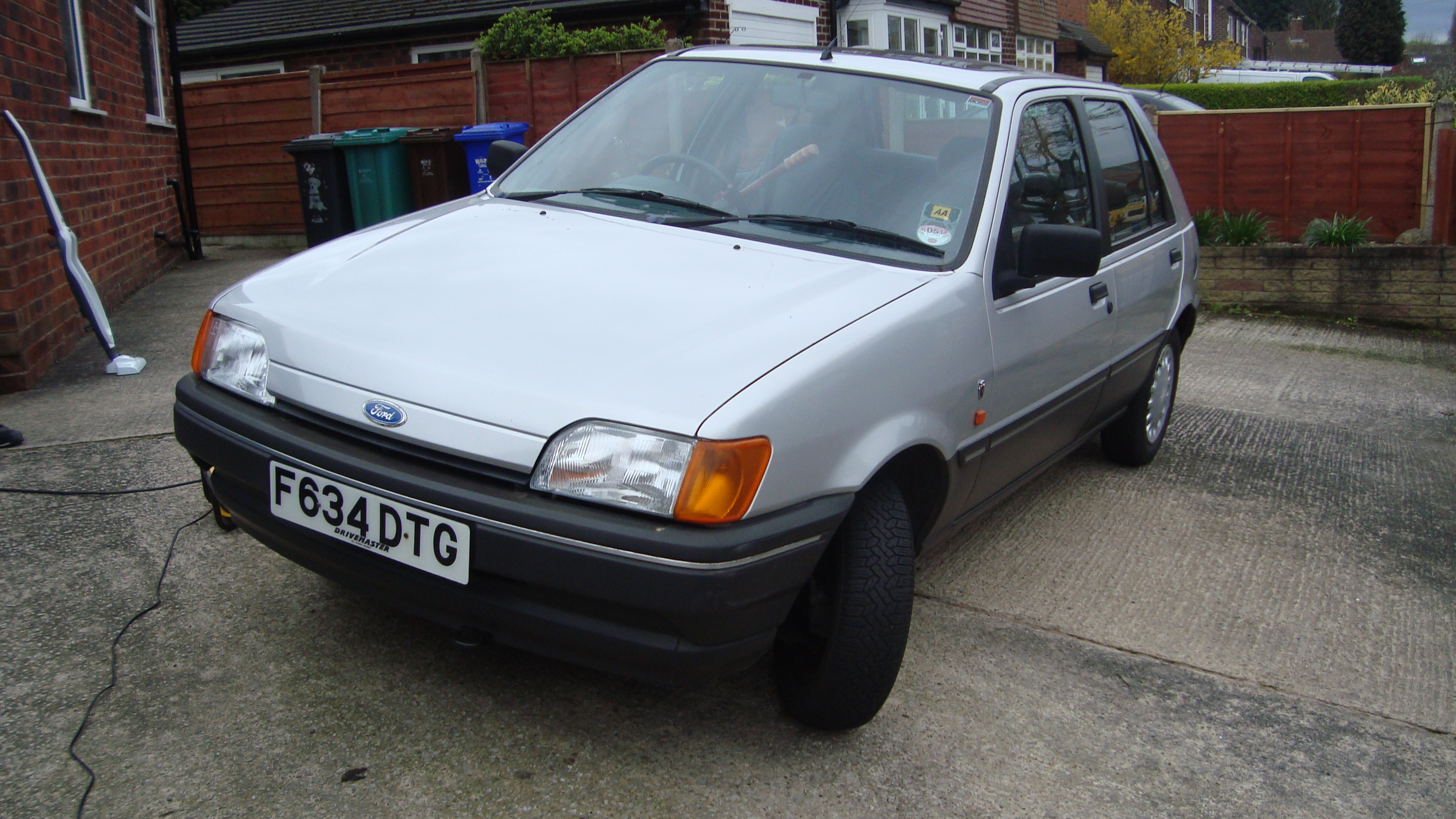 This was in timewarp conditon, I got chatting to the owner and he let me look inside, it's done just 10,802 miles from new!